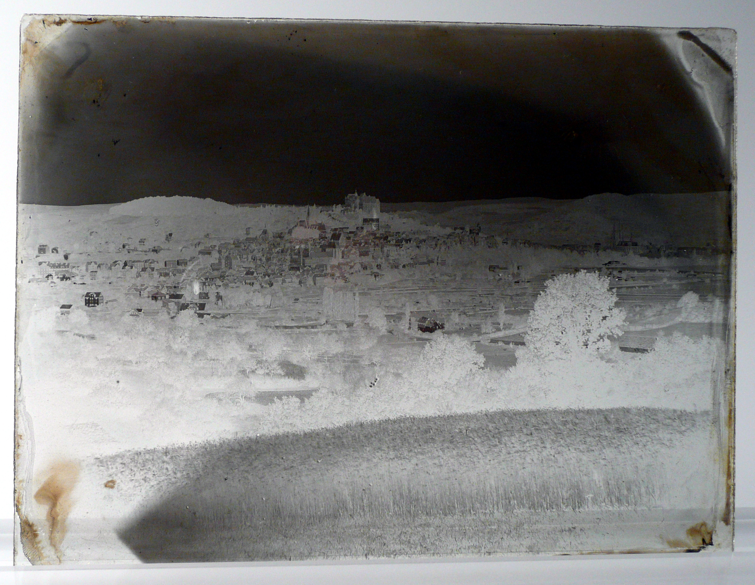 Original glass plate negative image by Ludwig Bickell produced in the collodion wet plate process in 1879-1891, size ca. 18x24 cm². View of the town of Marburg seen from Southeast. Archived by Bildindex der Kunst und Architektur Picture-No. 810.044a